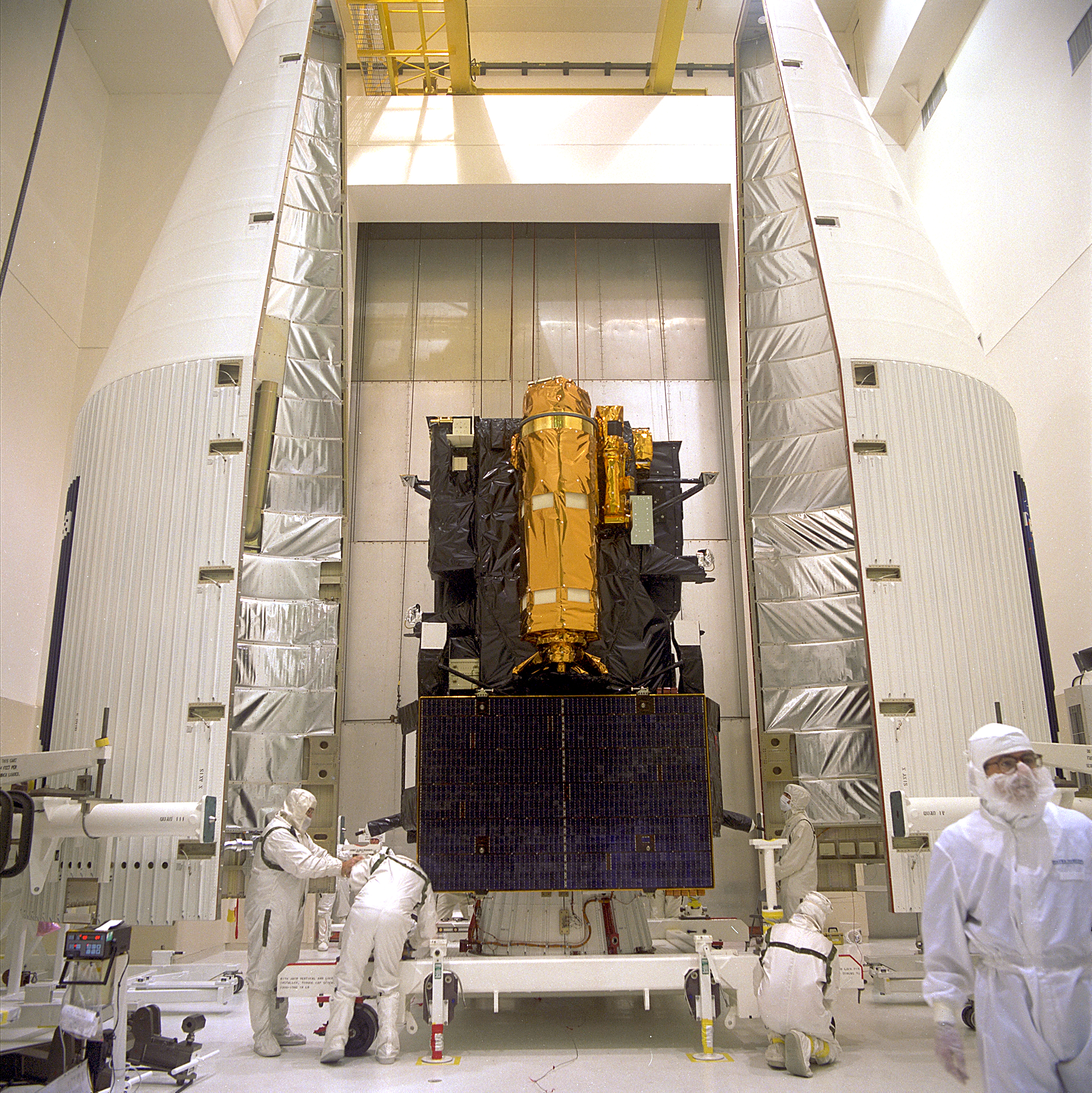 Fully assembled, checked out and fueled for flight, the Solar and Heliospheric Observatory (SOHO) is ready for encapsulation in its protective payload fairing. Note the protective thermal blankets encasing the spacecraft and the solar arrays stowed at the base. This will wrap up preflight activities in the Spacecraft Assembly and Encapsulation Facility 2 (SAEF-2). Once encapsulated, SOHO will be transferred to Launch Complex 36B on Cape Canaveral Air Station, where it will be mated to the Atlas IIAS expendable vehicle that will carry it into space on Nov. 23.